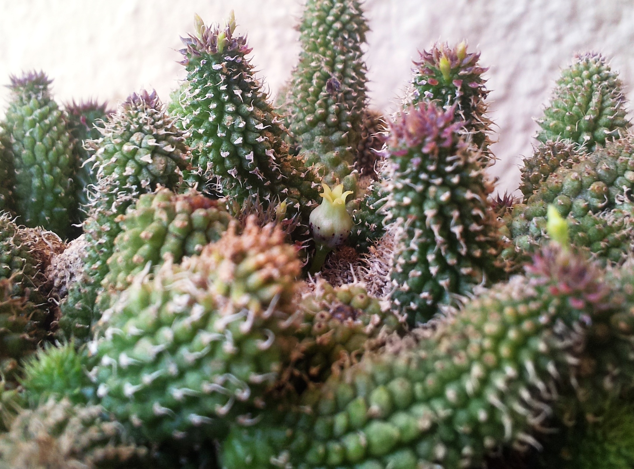 Echidnopsis specksii - Ethiopia